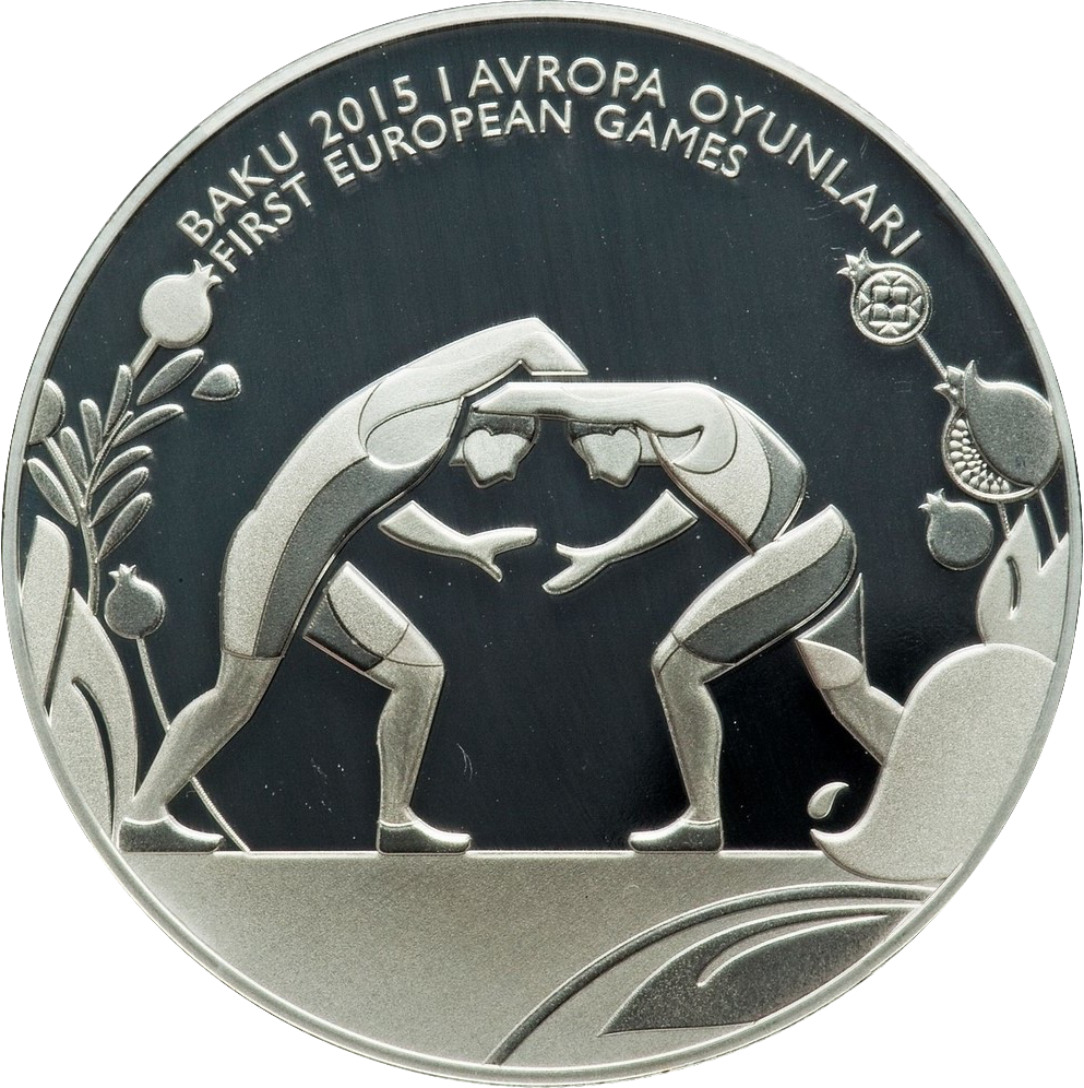 Commemorative coin of Azerbaijan